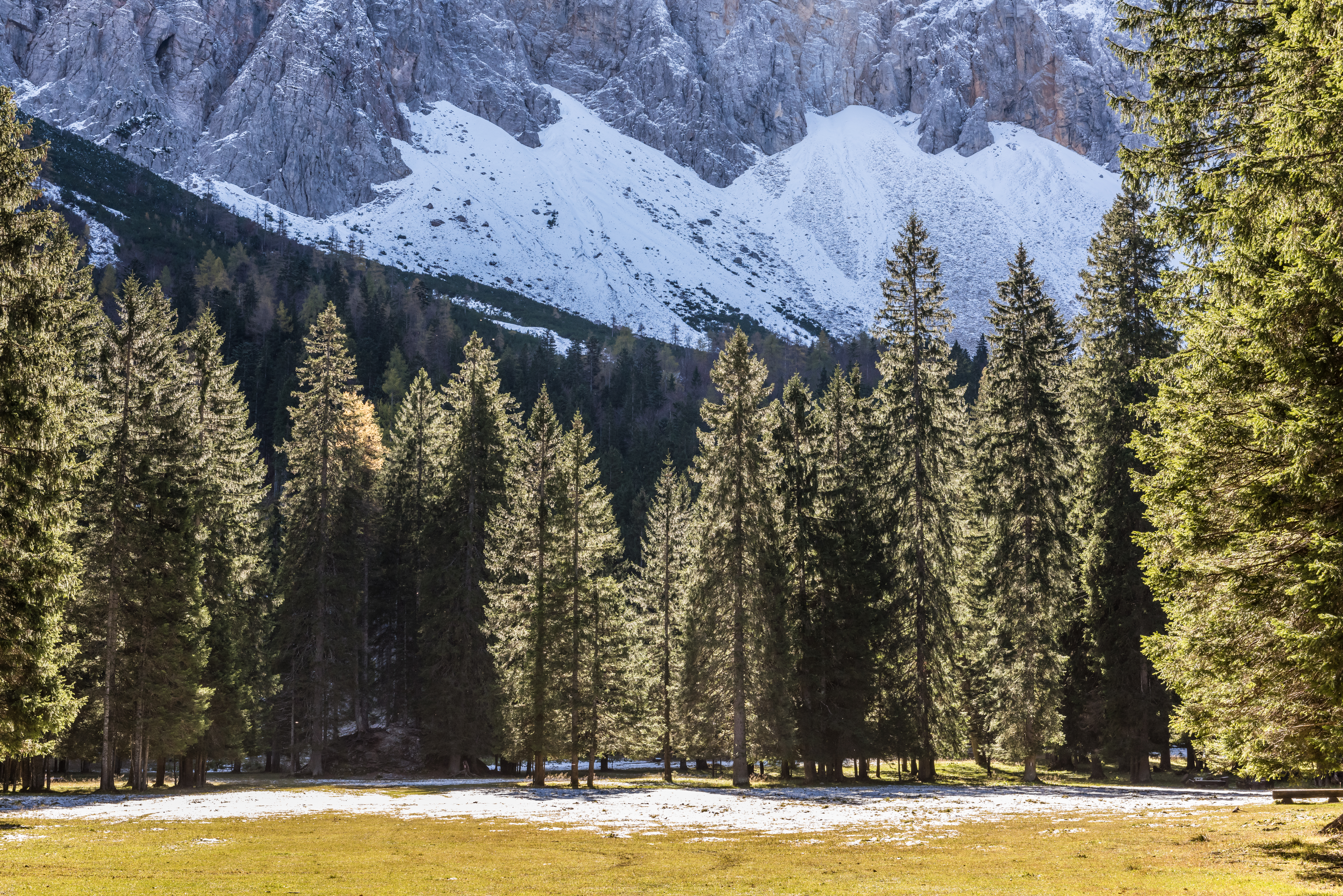 Märchenwiese (Romance Meadow), Bodental valley, municipality Ferlach, Carinthia, Austria, EU